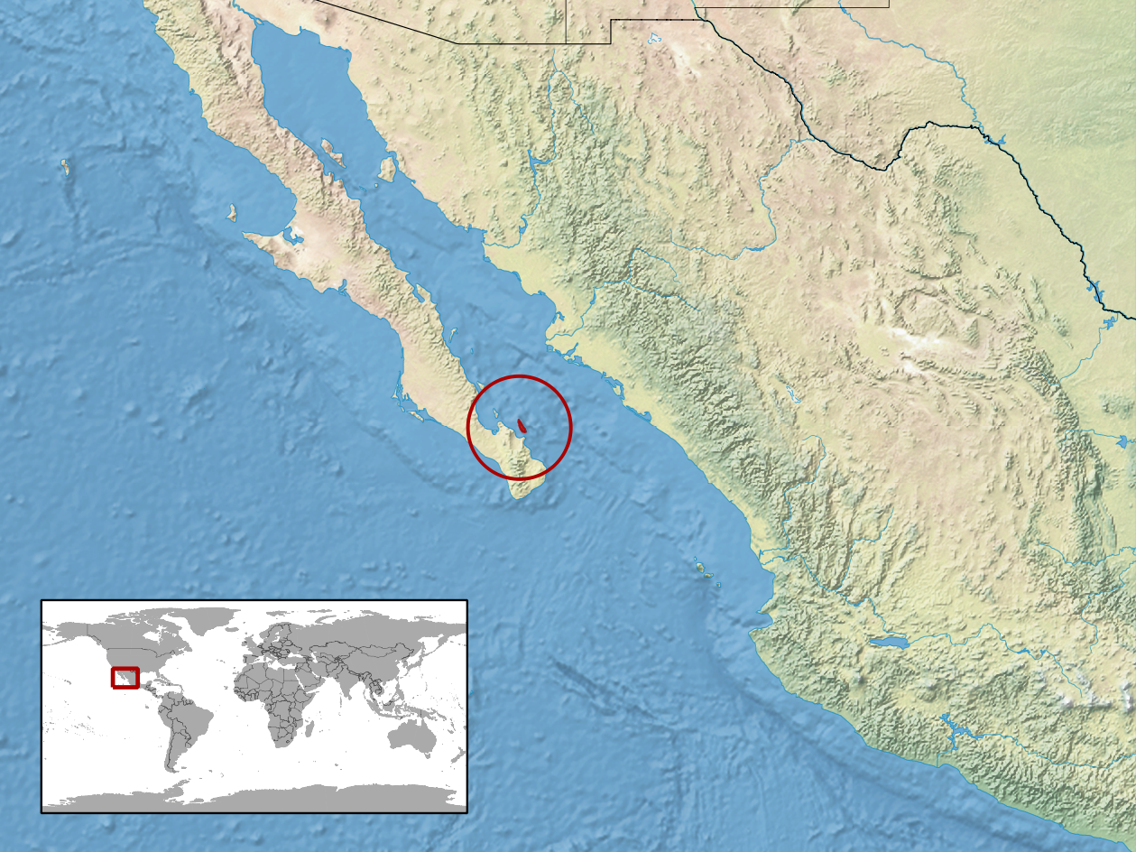 geographic distribution of Chilomeniscus savagei (Native: Mexico)